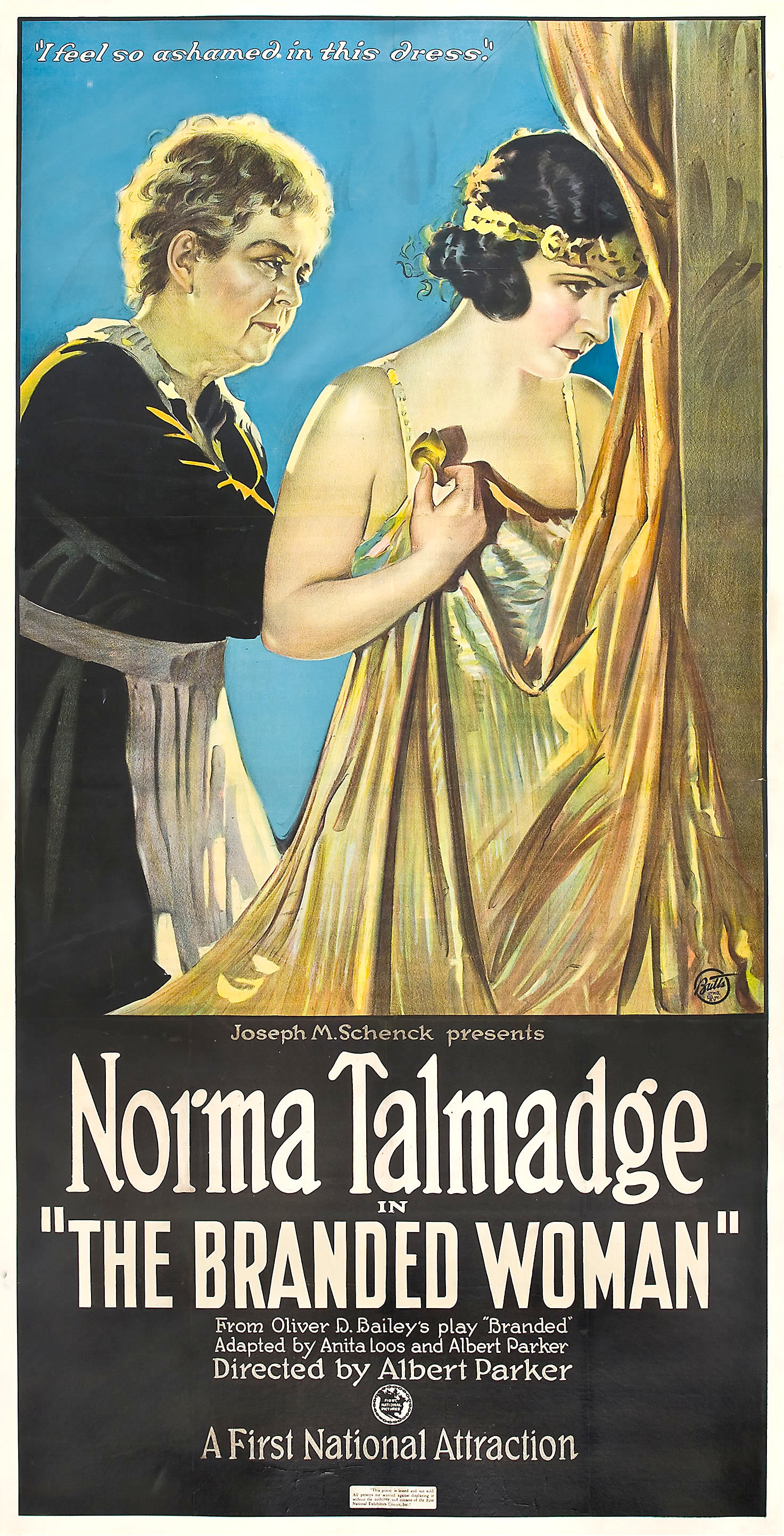 The Branded Woman is a 1920 American silent film drama released by First National Pictures. This is a movie poster.